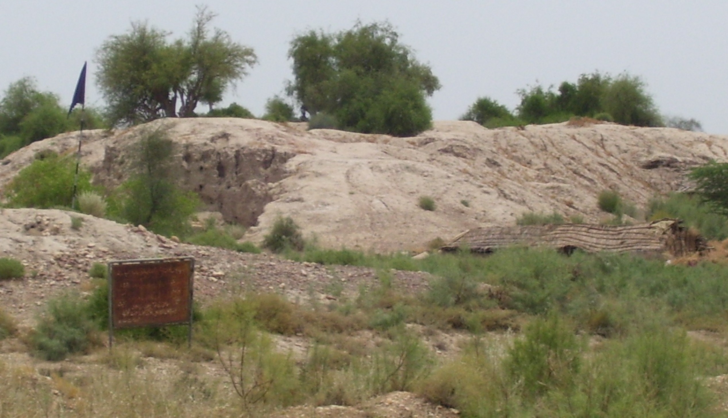 Amri Mounds This is a photo of a monument in Pakistan identified as the SD-4